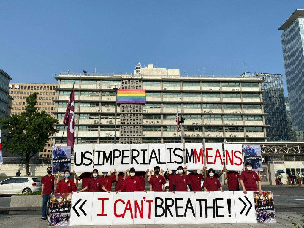 Quote from U.S. Ambassador Harry Harris from his Twitter entry with this photo: "I disagree w/these protestors but respect their right to peacefully protest here in democratic ROK. Way cool-Americans & Koreans will rally VIRTUALLY on Saturday. USA will investigate fully & transparently George Floyd's killing. Shared these thoughts w/Embassy Team last Tuesday."